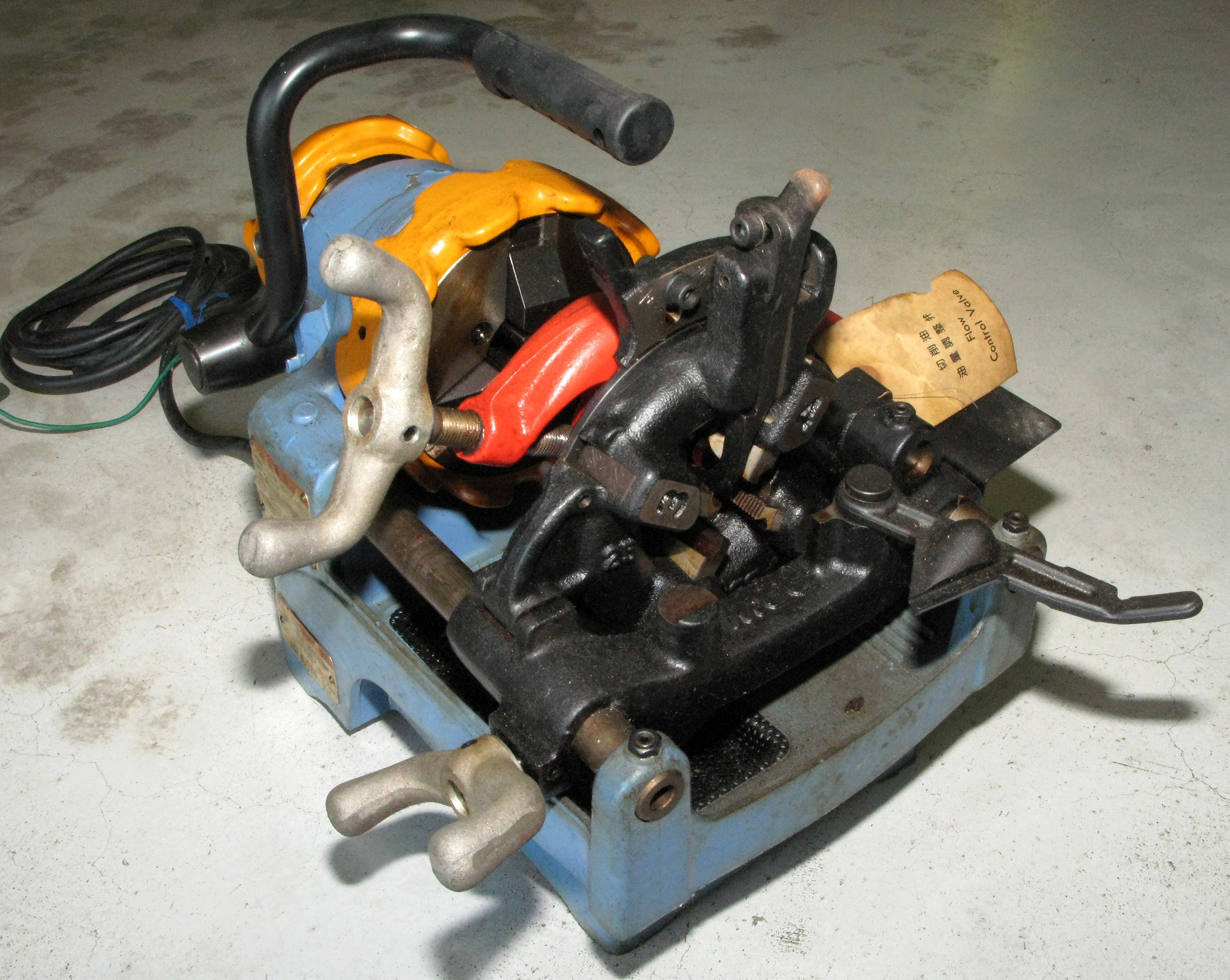 Pipe Threading Machine PMNA025 MCC brand made in japan